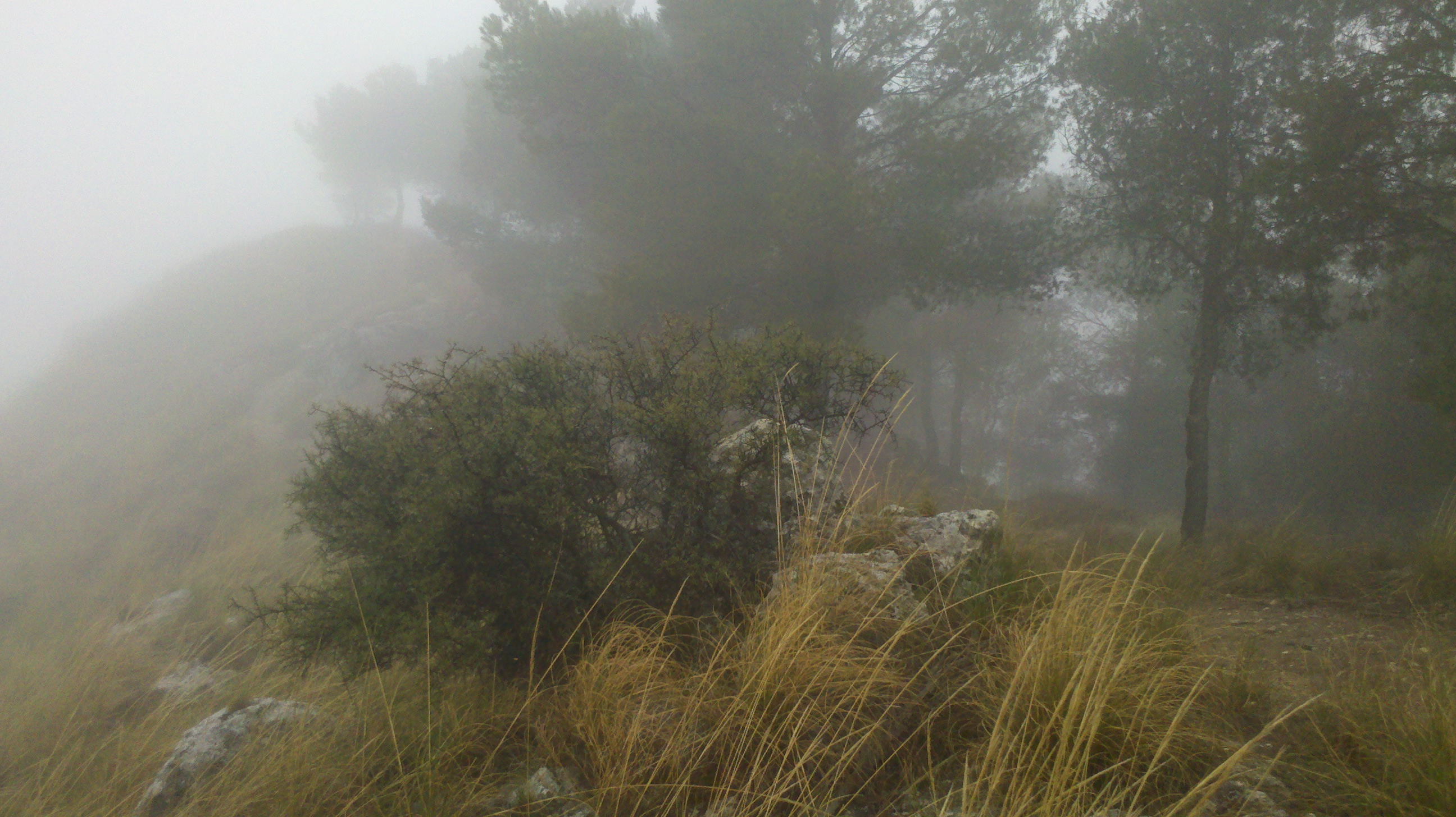 Peña Hueva, Guadalajara, Spain, on top of the drop